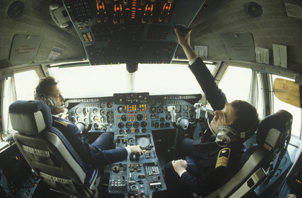 “IL-86 flight deck”. The flight deck of an IL-86.